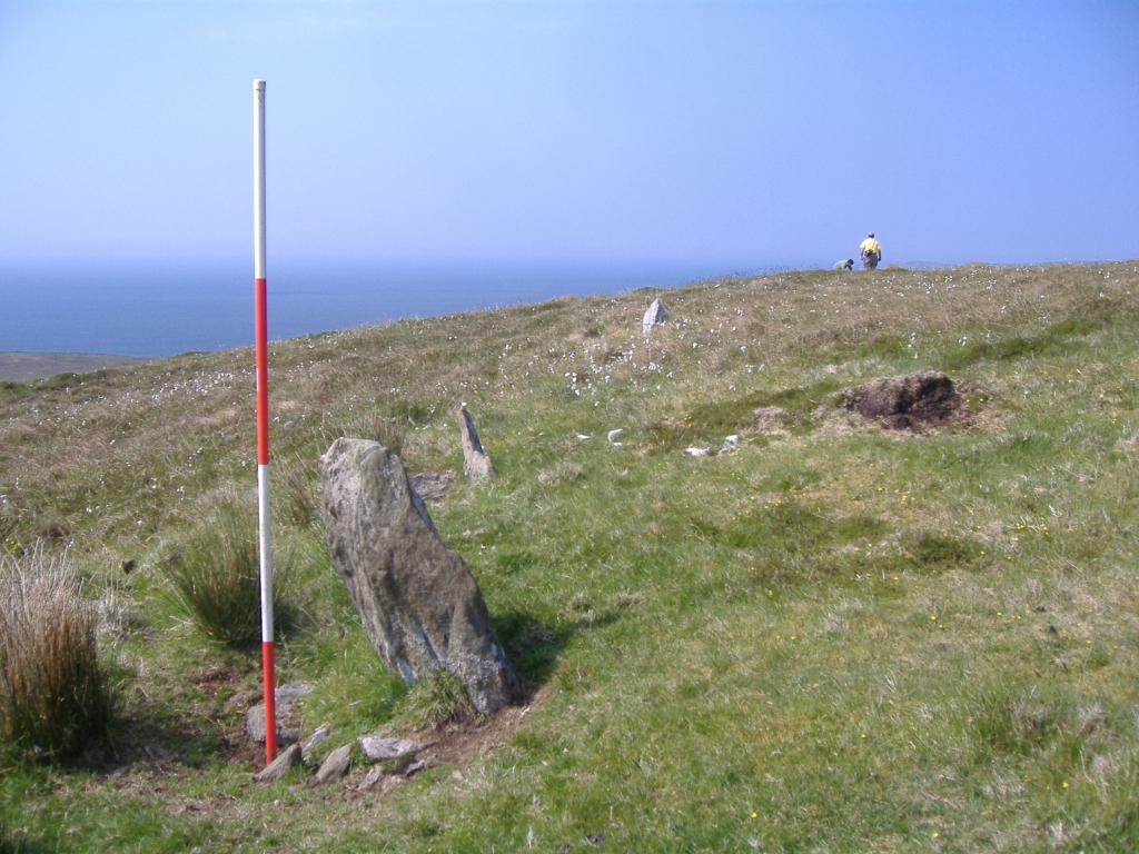 A series of ancient markers from prehistoric times which encircle this mountain in Kilcommon, Erris, North Mayo - lead from one set of megalithic monuments (Graghil) to another (Faulagh/Muingerroon complex) on mountains approx 5 miles away.